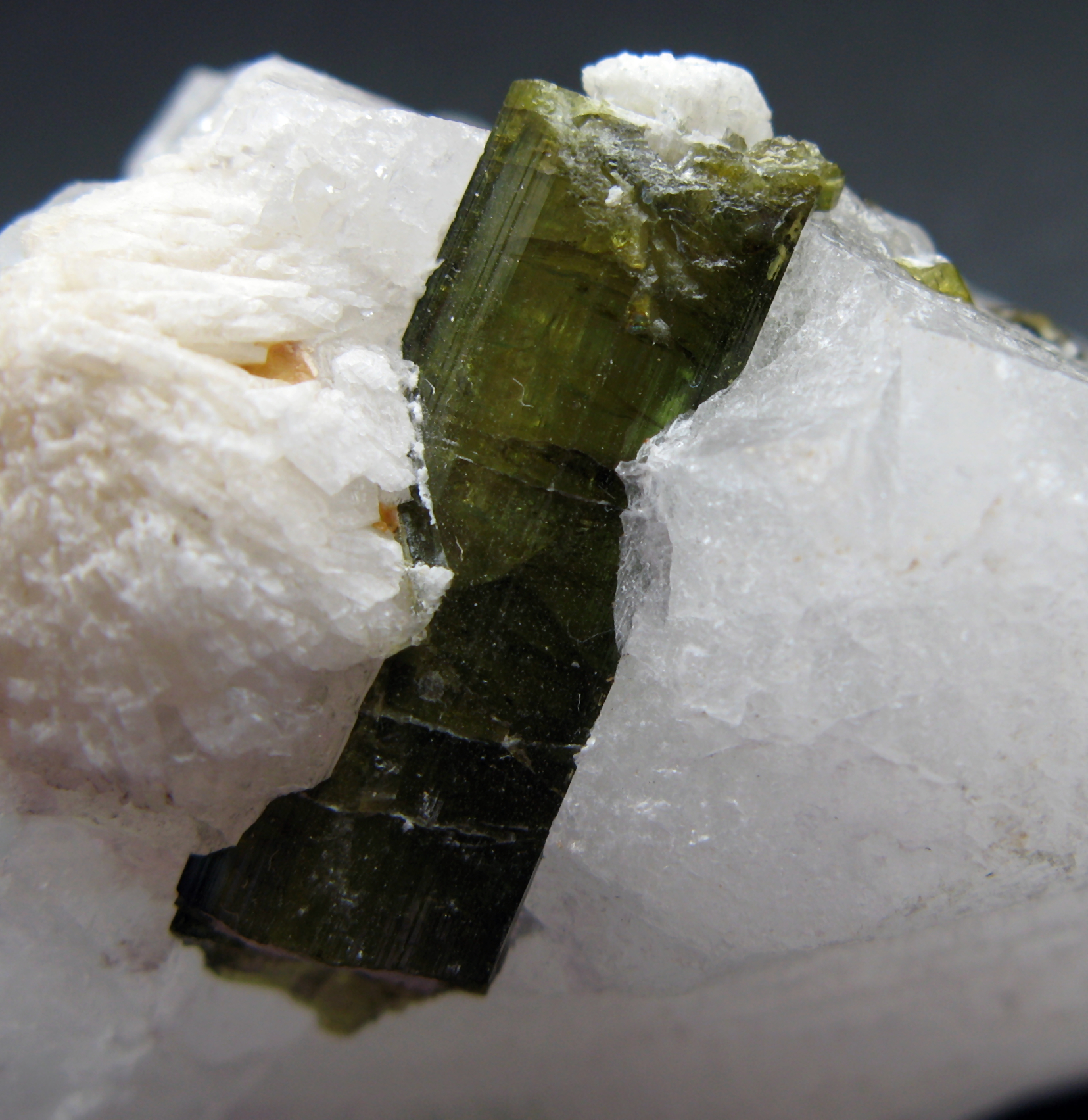 Group Tourmaline - Elbaite, variety Verdelite in Quartz, from Brazil